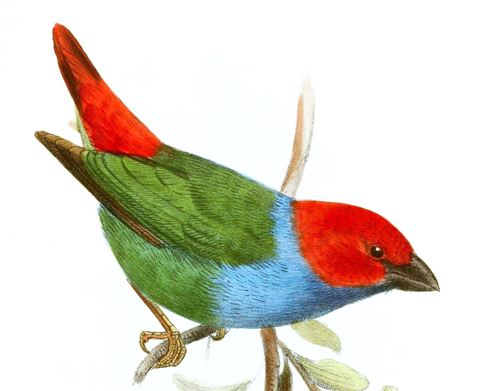 « Erythrospiza serena » = Erythrura regia serena (Subspecies of Royal Parrotfinch)